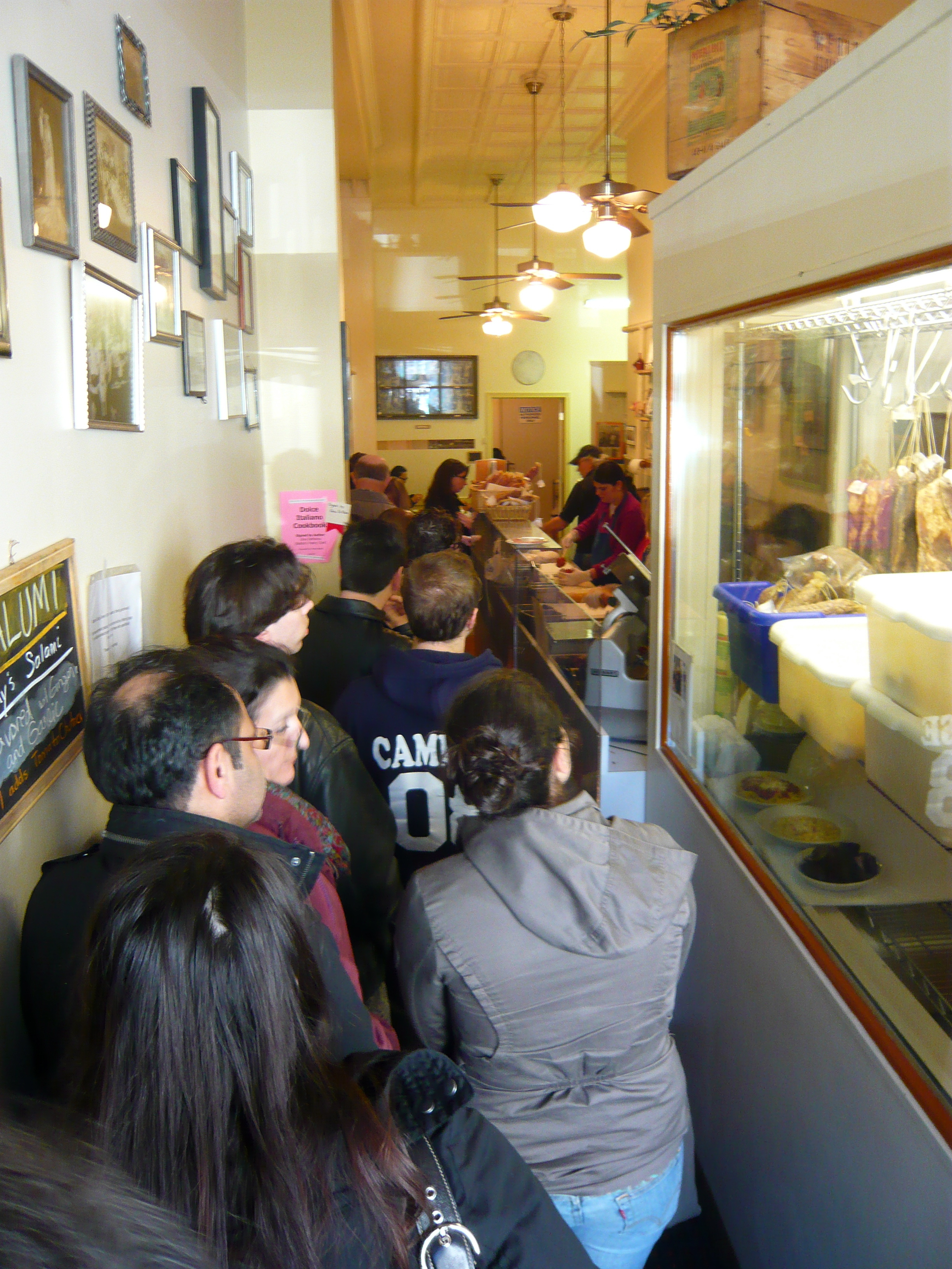 You may wait in line a while, but the food rocks. Interior of Salumi restaurant, Seattle, Washington.